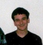 Jared Pappas-Kelley as employee of Bomis.